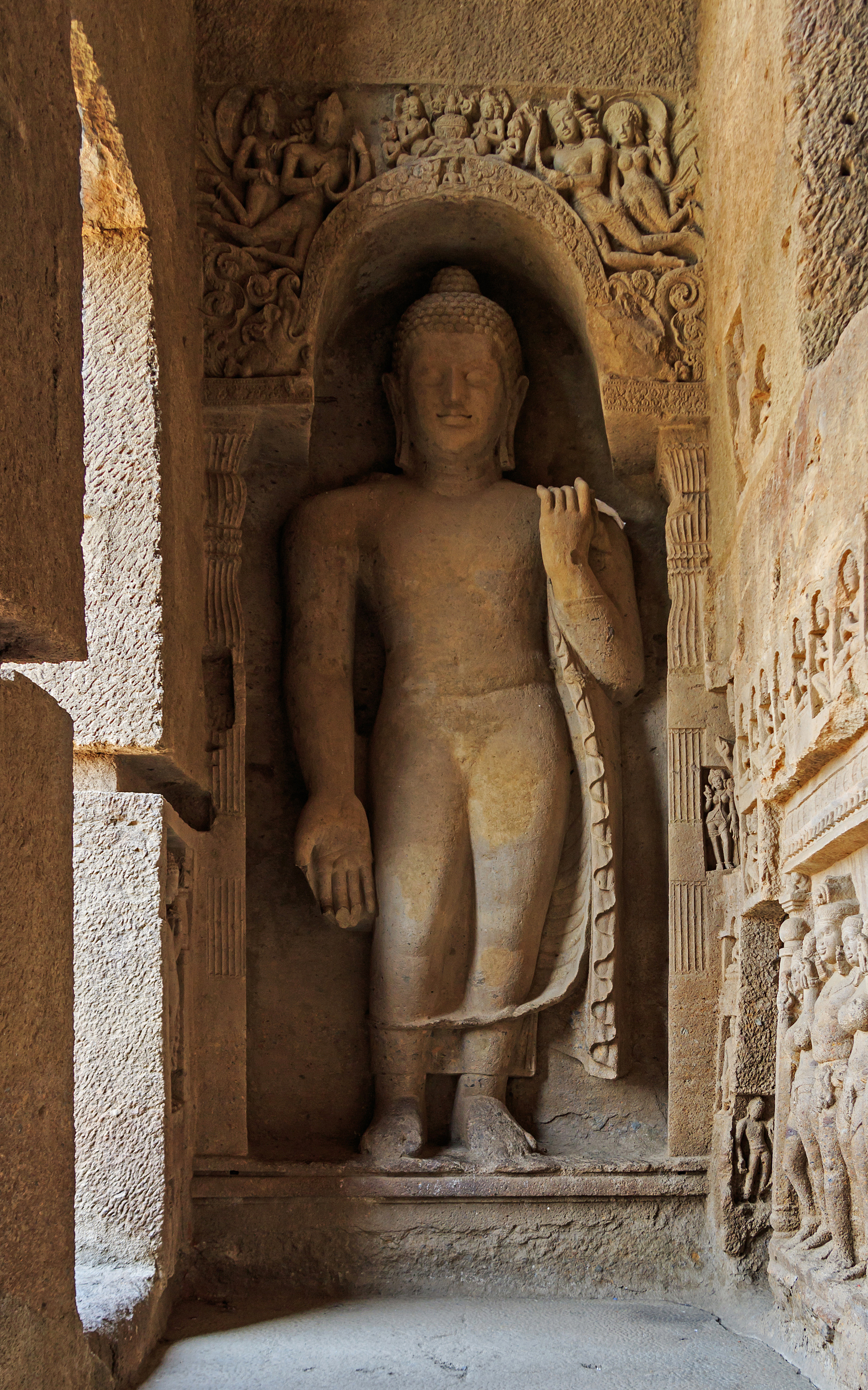 Kanheri Caves in Sanjay Gandhi National Park in Mumbai, India